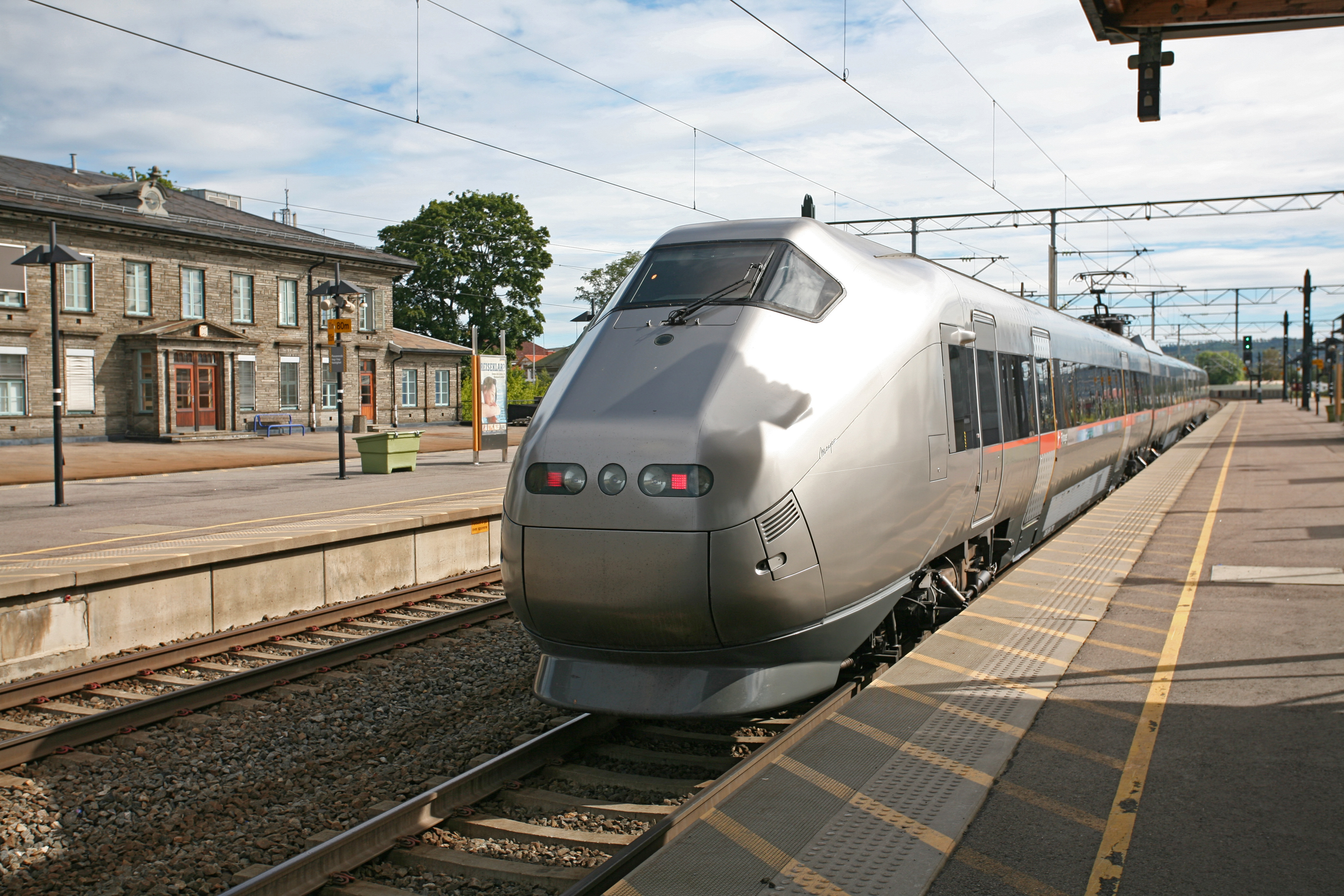 Picture of 71101 at Lillestrøm Railway Station